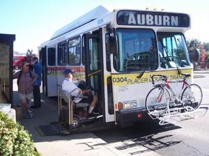 Placer County Transit bus, showing wheelchair passenger boarding and bicycle rack in use